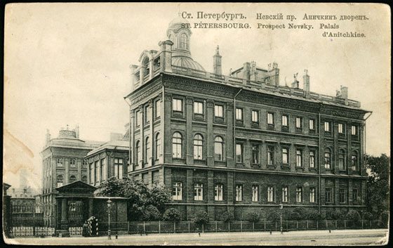 Saint Petersburg (Russia), Anichkov Palace.